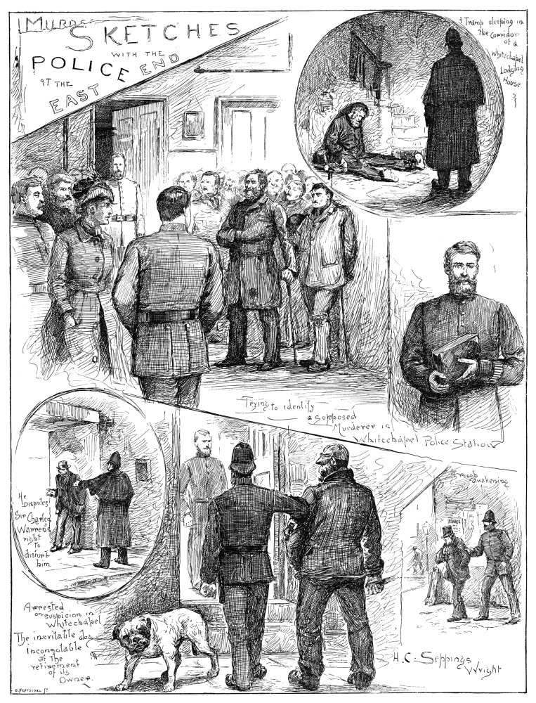 The Illustrated London News (September 22nd, 1888) : “Arrested on suspicion in Whitechapel”, “Trying to identify a supposed murderer in Whitechapel police station”...